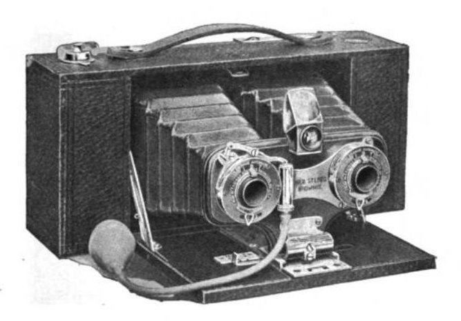 Kodak stereo 'Box Brownie' camera, from advertisement in 1905 photography magazine. This took two pictures at once, which could be viewed in a special viewer to create a 'stereoscopic' or 3-dimensional view of the object. The surrounding advertising copy: "Stereoscopic Pictures are made as easily as single views with the STEREO Brownie camera, price: $12.00. Each picture measures 3 1/4 x 2 1/2 inches. Eastman Kodak Co., Rochester, N.Y." Alterations: removed surrounding advertising copy, cropped.